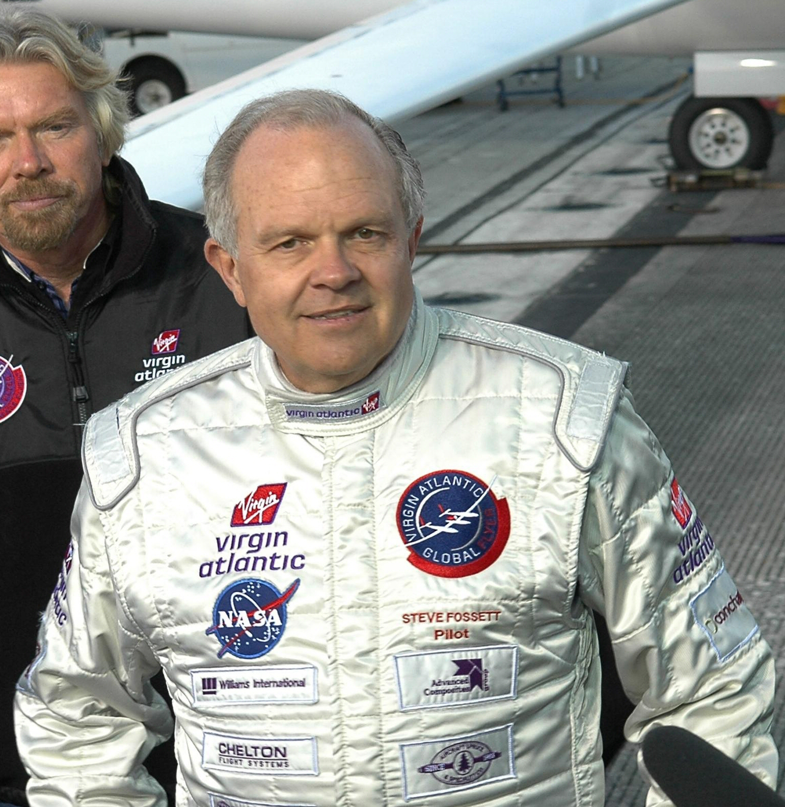 Pilot Steve Fossett talks to the media about the reason the takeoff of the Virgin Atlantic GlobalFlyer was postponed. Behind Fossett is Sir Richard Branson, chairman and founder of Virgin Atlantic. Behind both is the GlobalFlyer aircraft. Fossett will pilot the GlobalFlyer on a record-breaking attempt by flying solo, non-stop without refueling, to surpass the current record for the longest flight of any aircraft. Fossett was expected to take off from the KSC SLF before the takeoff was postponed due to the fuel leak that appeared in the last moments of loading. The next planned takeoff attempt is 7 a.m. Feb. 8 from the SLF